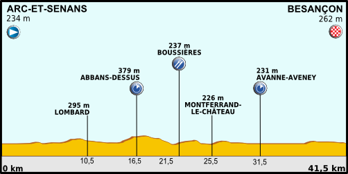 Profil of the 9th stage of the Tour de France 2012